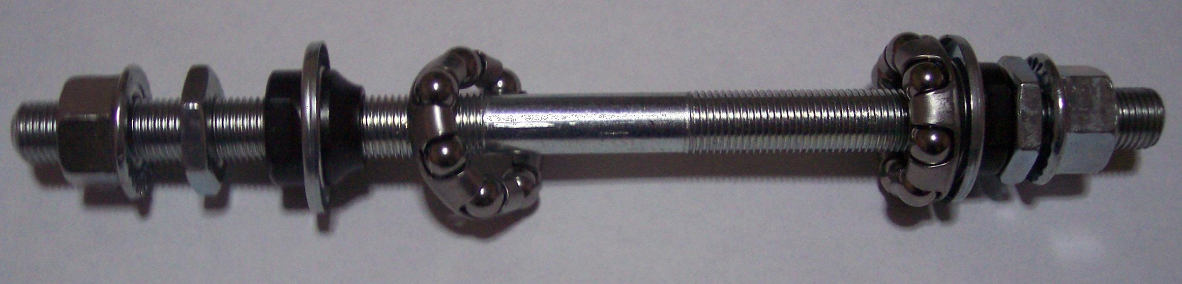 Bicycle wheel axle with parts.